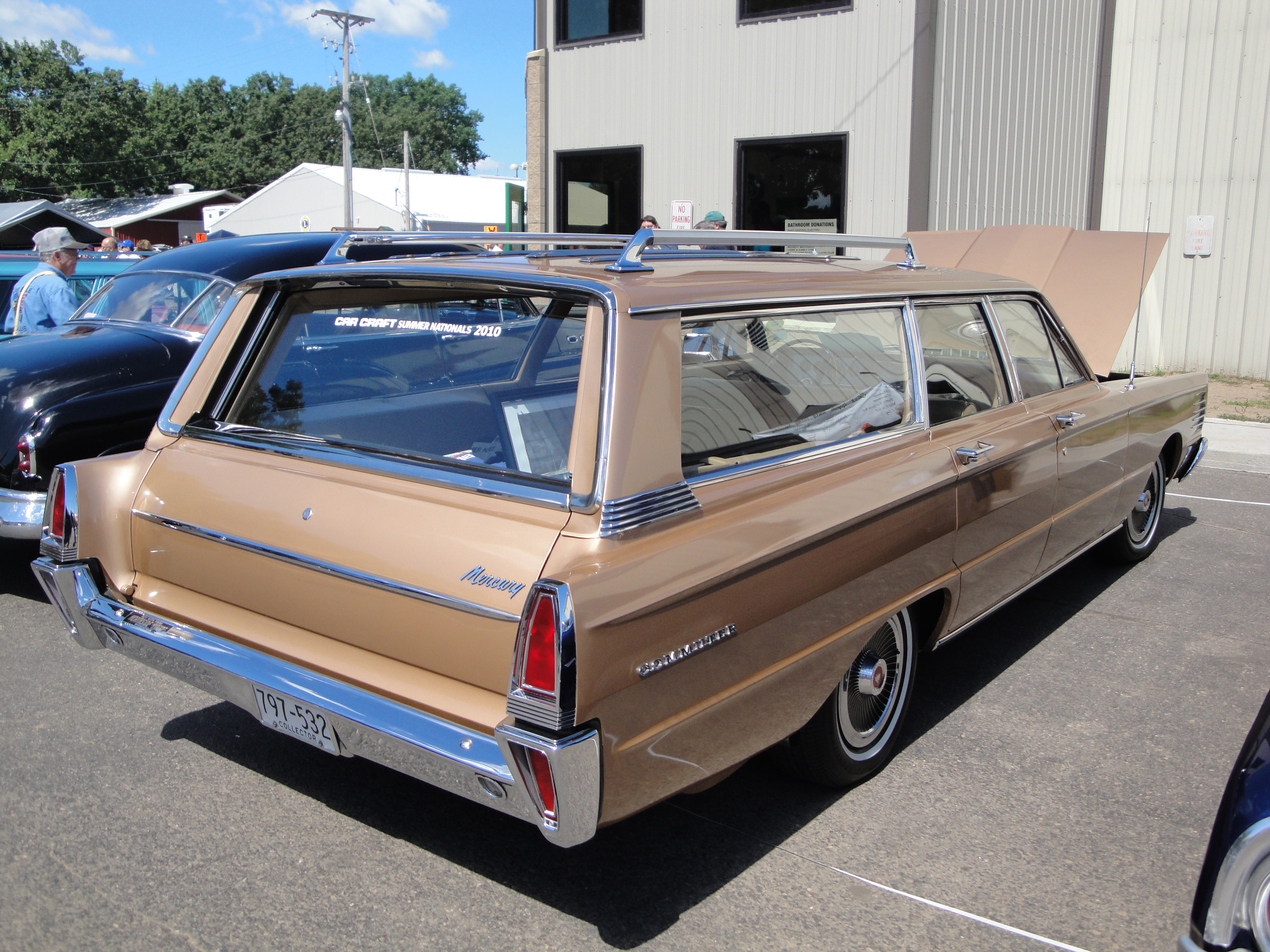 The Pantowners Annual Car Show and Swap Meet Sunday August 21, 2011